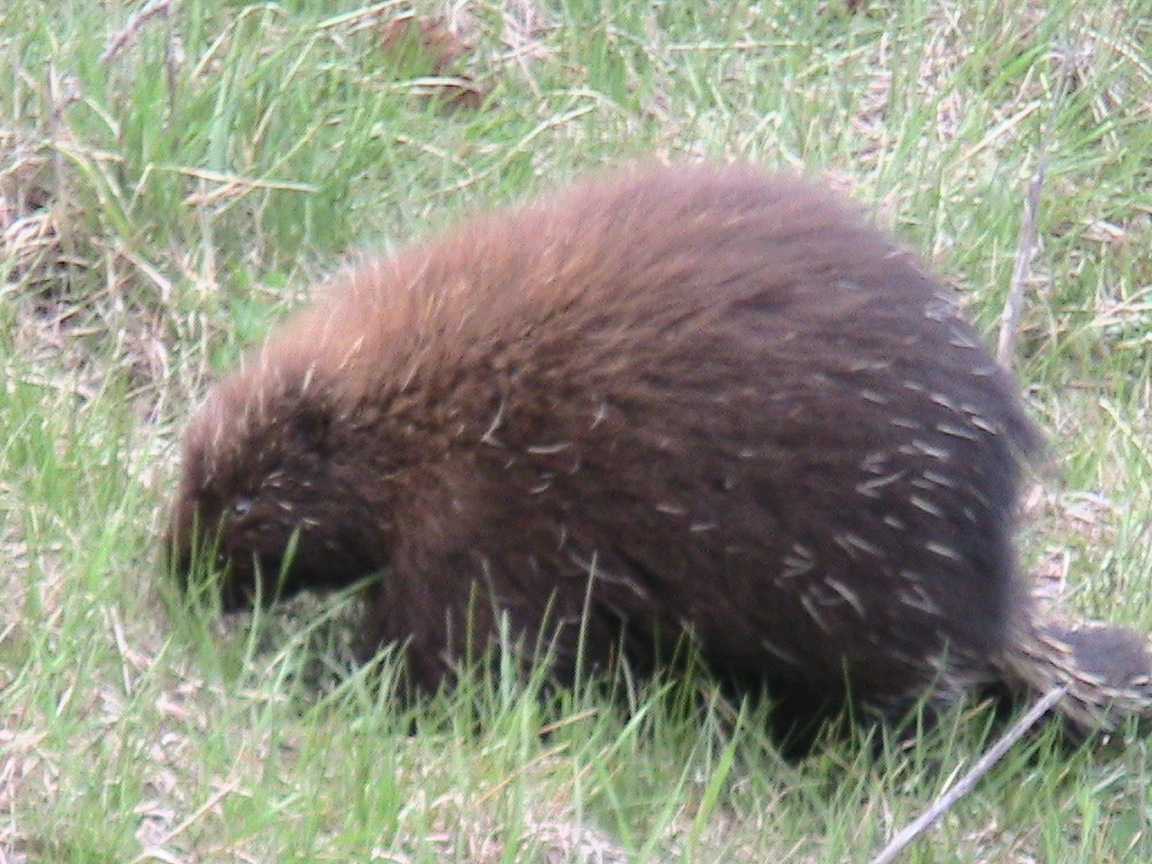 A porcupine forages along the Maine Turnpike in Scarborough.